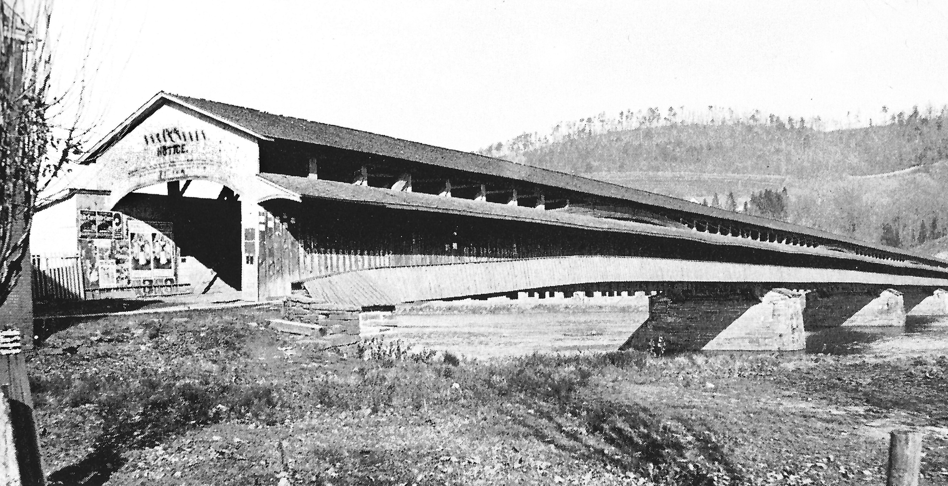 The Jay Street Bridge — a covered bridge over the West Branch Susquehanna River (circa 1890s). Located in Lock Haven, Clinton County, Pennsylvania.